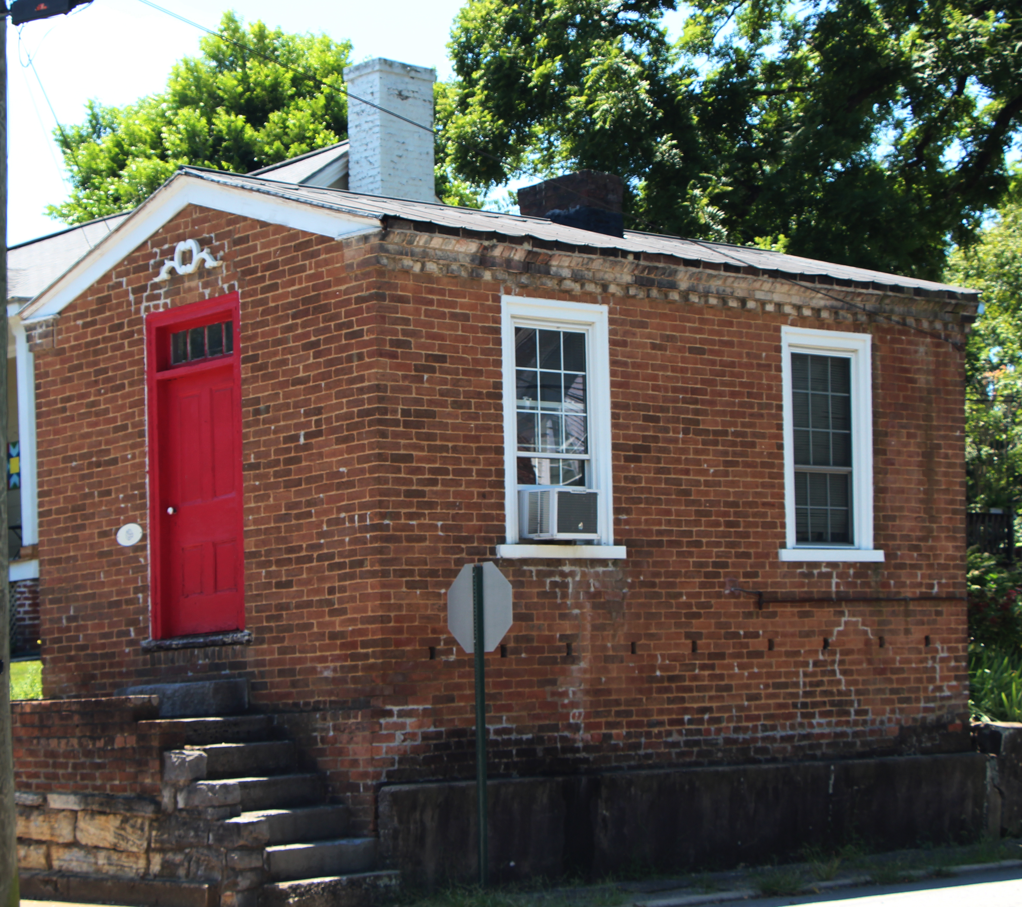 Armitage-McKee Law Office, Greeneville, TN